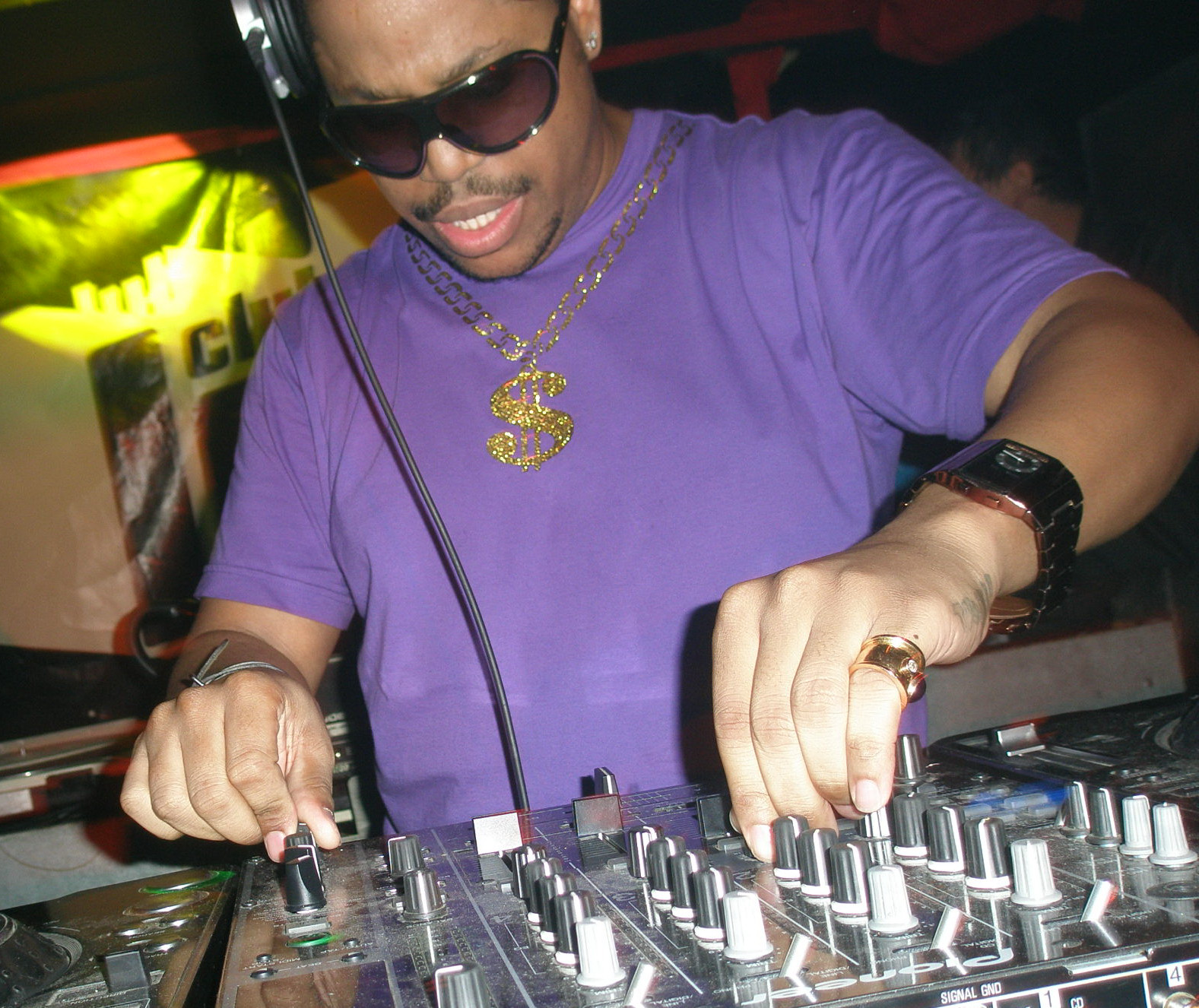 Felix da Housecat performing at Low Club in Madrid on December 7th, 2007.